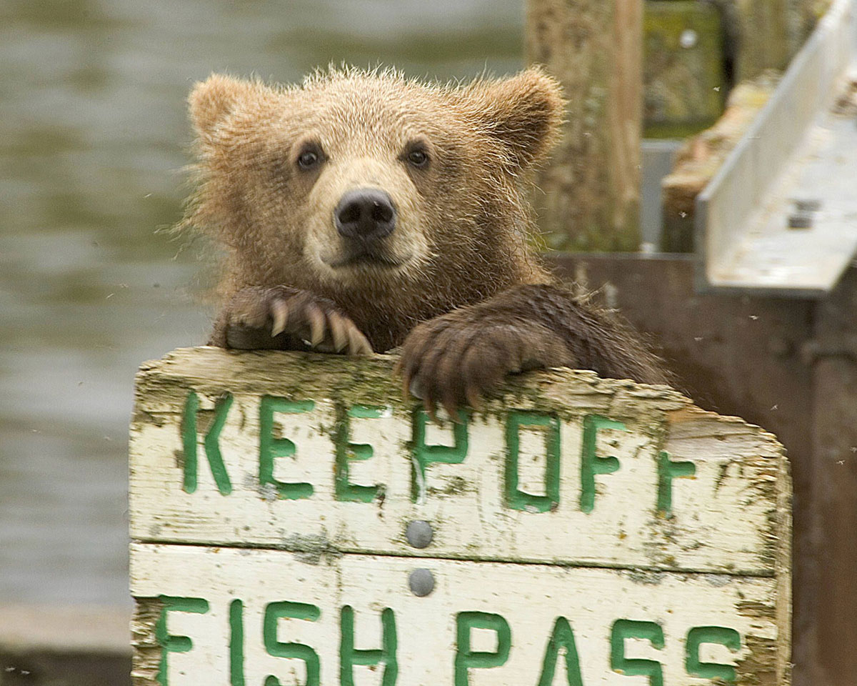 Who's going to argue with this guy? A grizzly cub makes sure you get the message at Kodiak National Wildlife Refuge in Alaska. (Photo: Steve Hillebrand/USFWS)